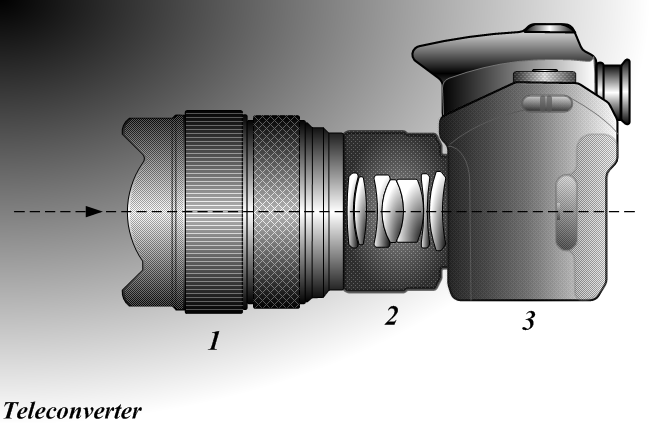 Teleconverter lens. An Olympus EC-20 - 2x teleconverter lens attached between a camera. 1 - Camera lens 2 - Teleconverter 3 - Camera body